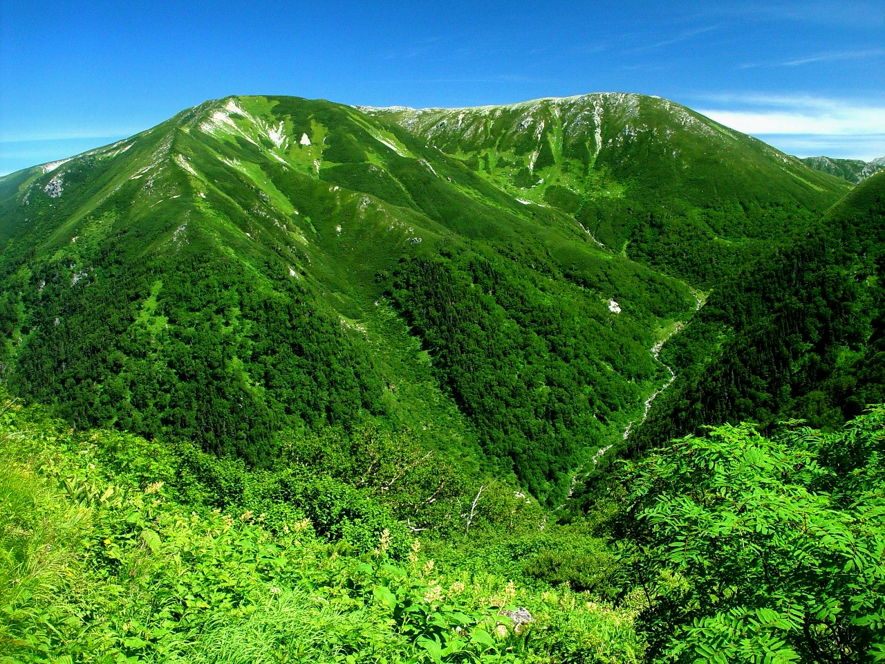 Mount Sugoroku from Mount Ōnoma, in Hida Mountains, Japan.